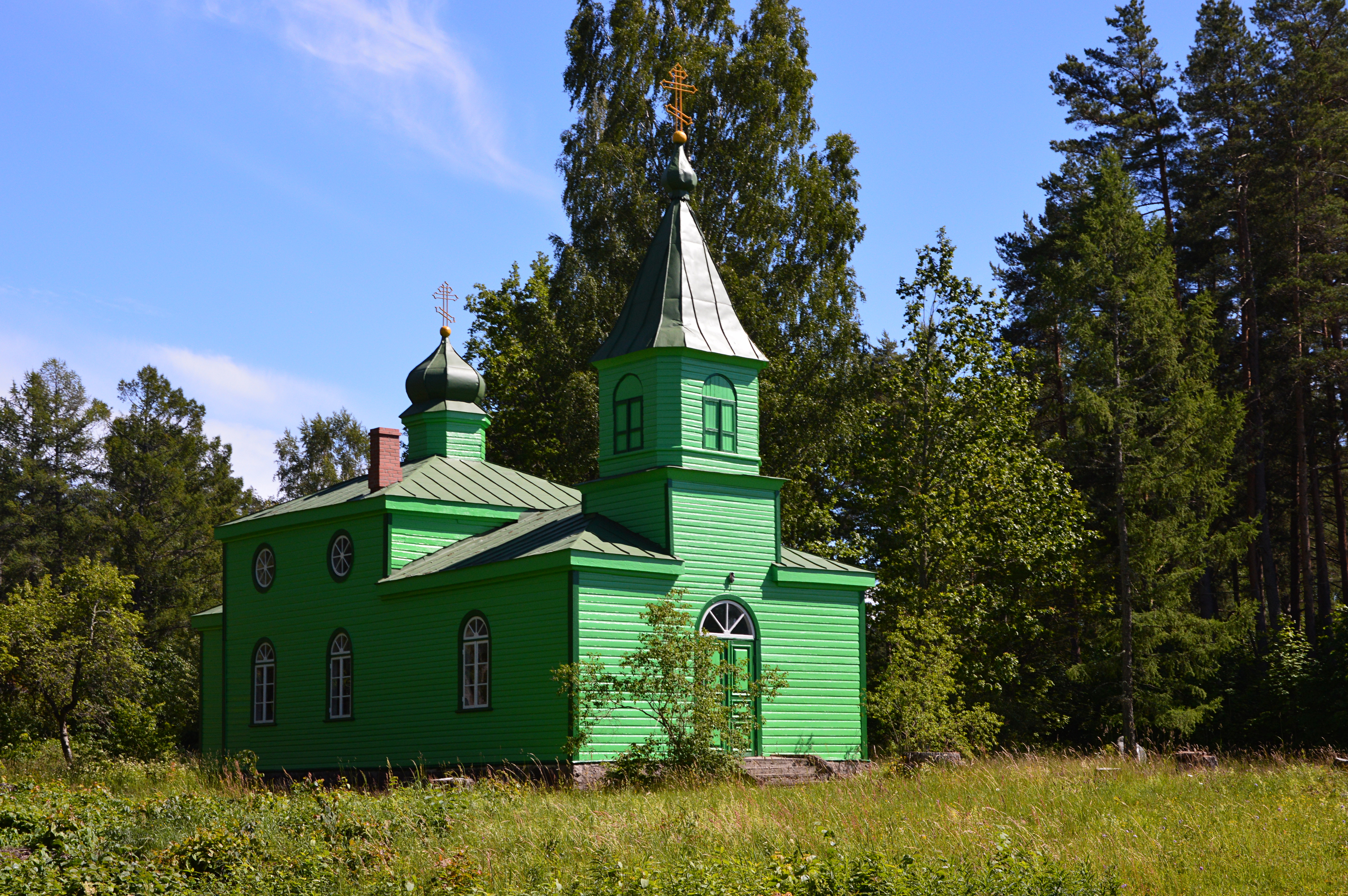 Laiksaare orthodox church in Urissaare village.